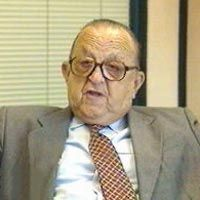 Picture of Sir Joshua Hassan in his office